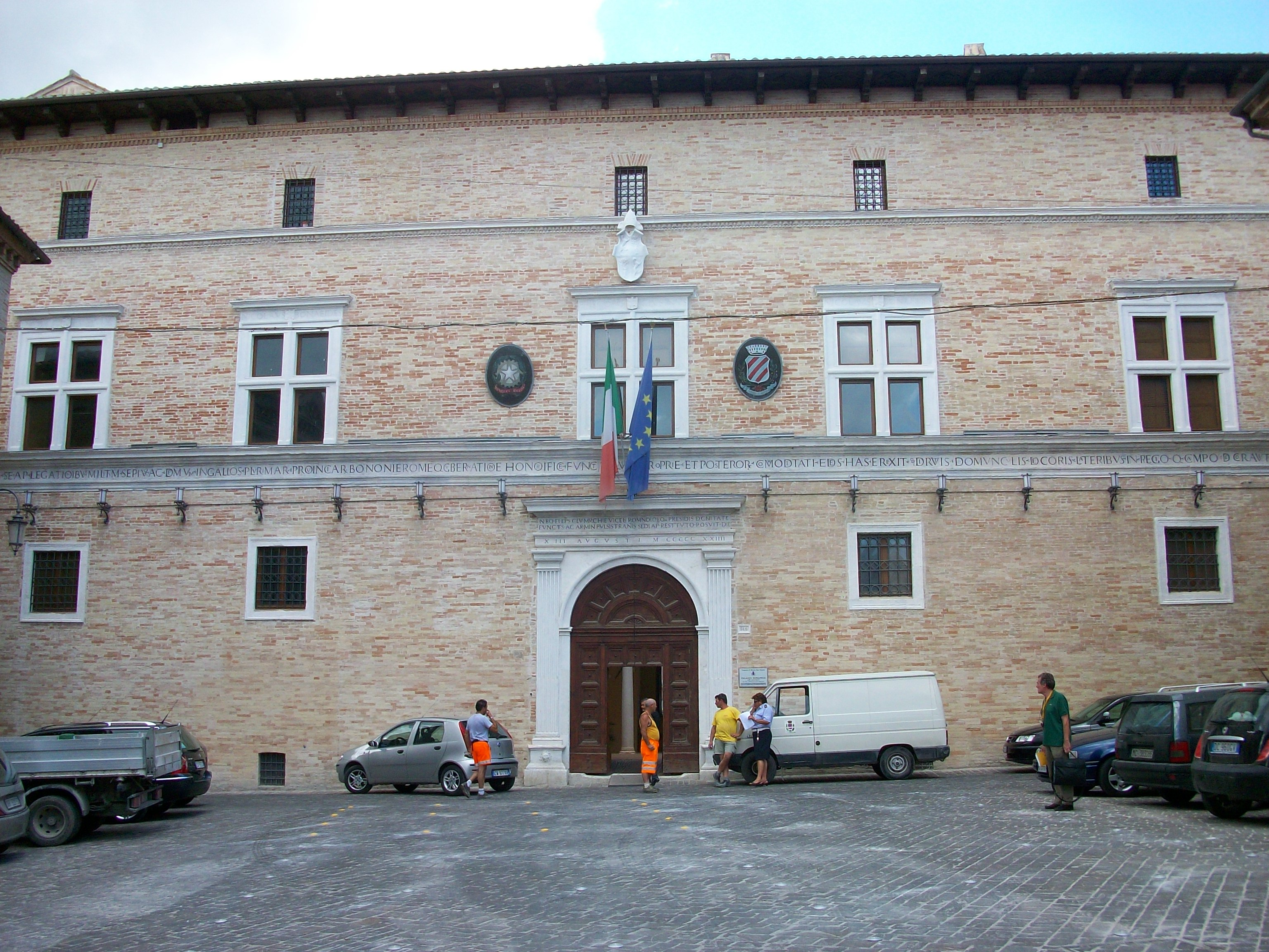 Bonafede's Palace